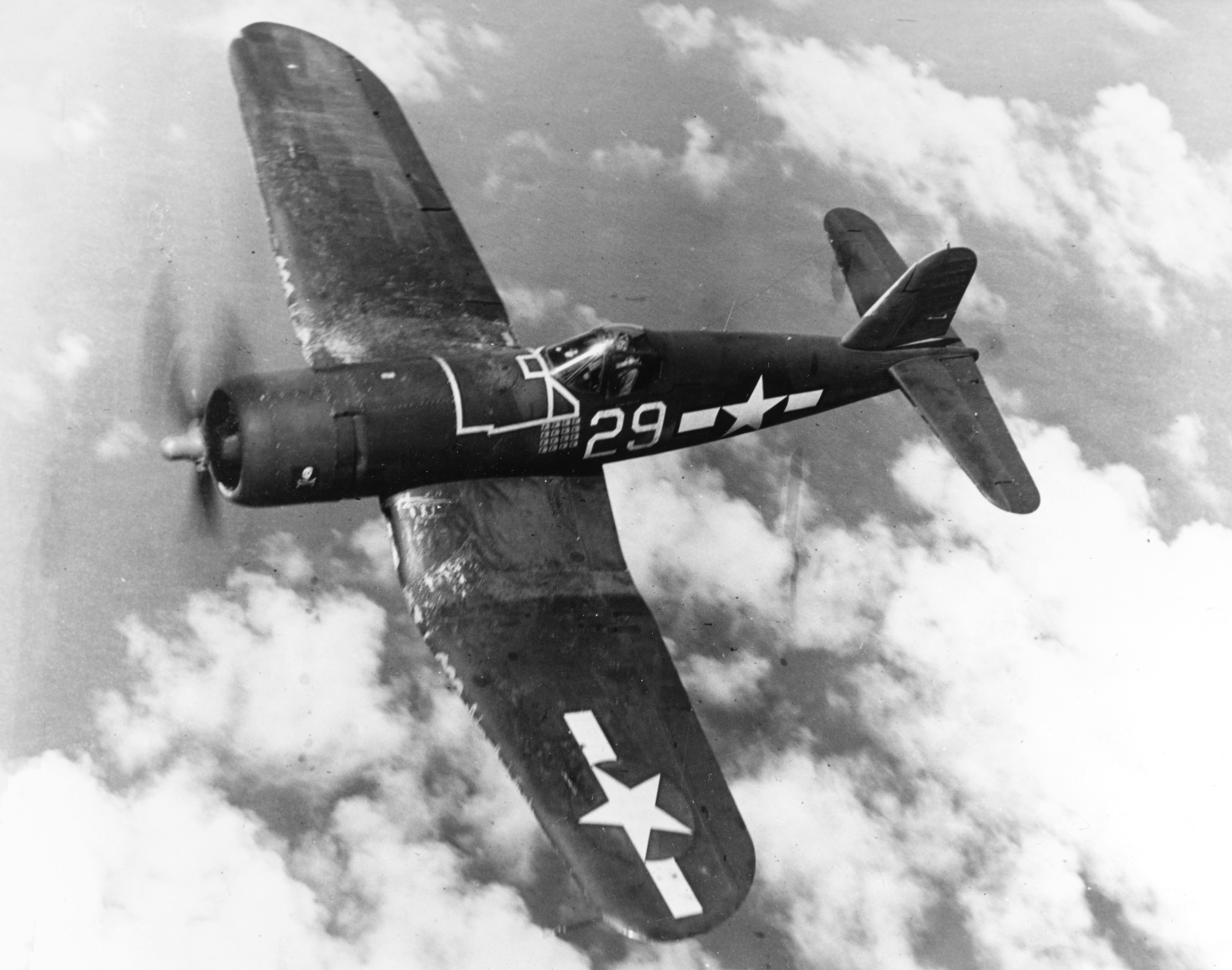 A U.S. Navy Vought F4U-1A Corsair (BuNo 55995) of Fighting Squadron 17 (VF-17) "Jolly Rogers" in the Southwest Pacific, in flight over Bougainville. This plane was the second Corsair flown by ace Ira C. Kepford. The photo was possibly taken over Bougainville in early March 1944, at the end of VF-17's Solomons combat tour, although the photo is dated 15 April 1944.